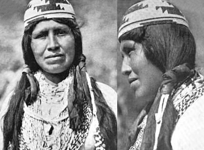 This is an American Indian woman of the Yurok people and she is named Alice Frank.